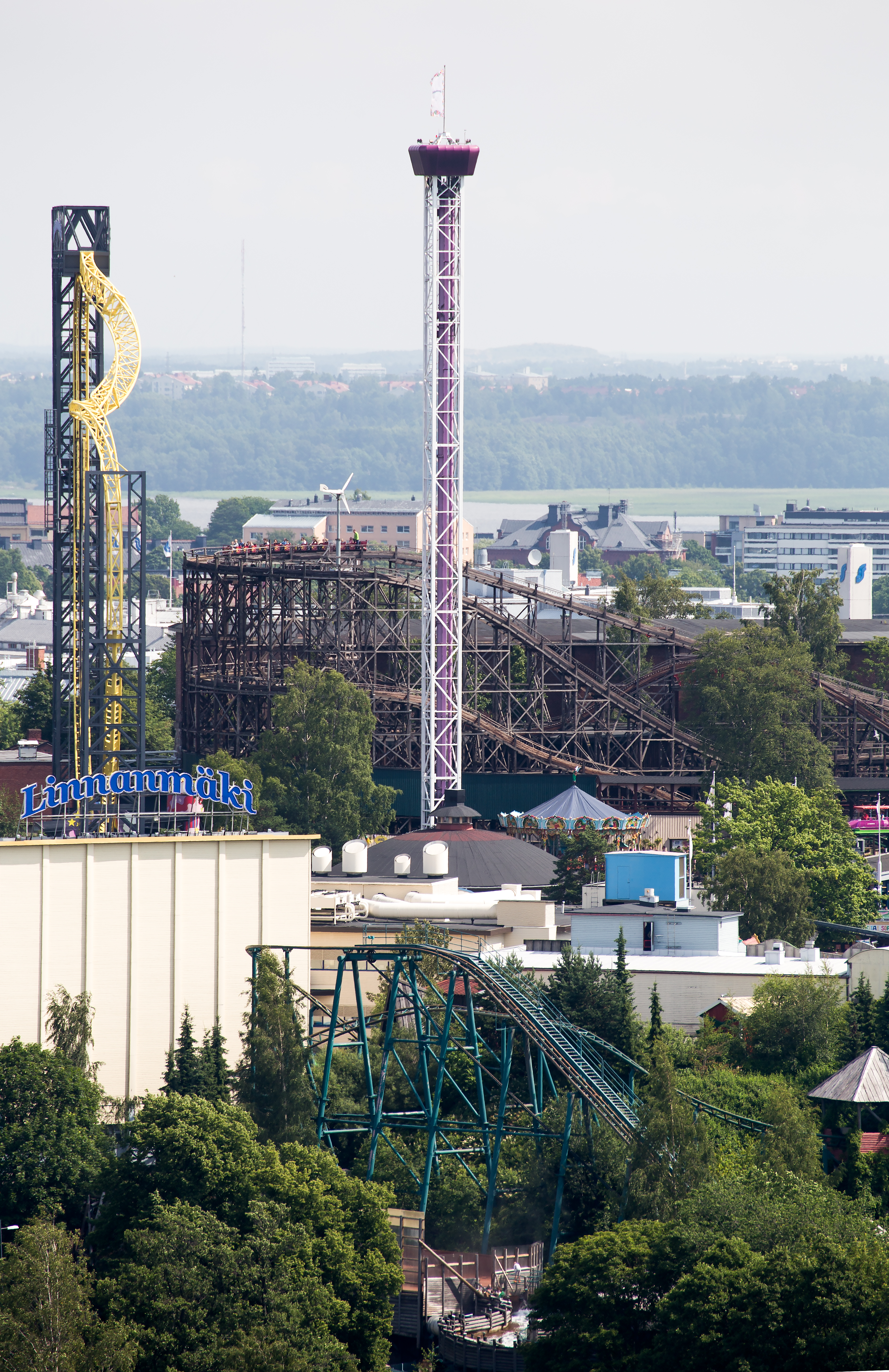 Linnanmäki amusement park in Helsinki as seen from the Olympic Stadium tower.